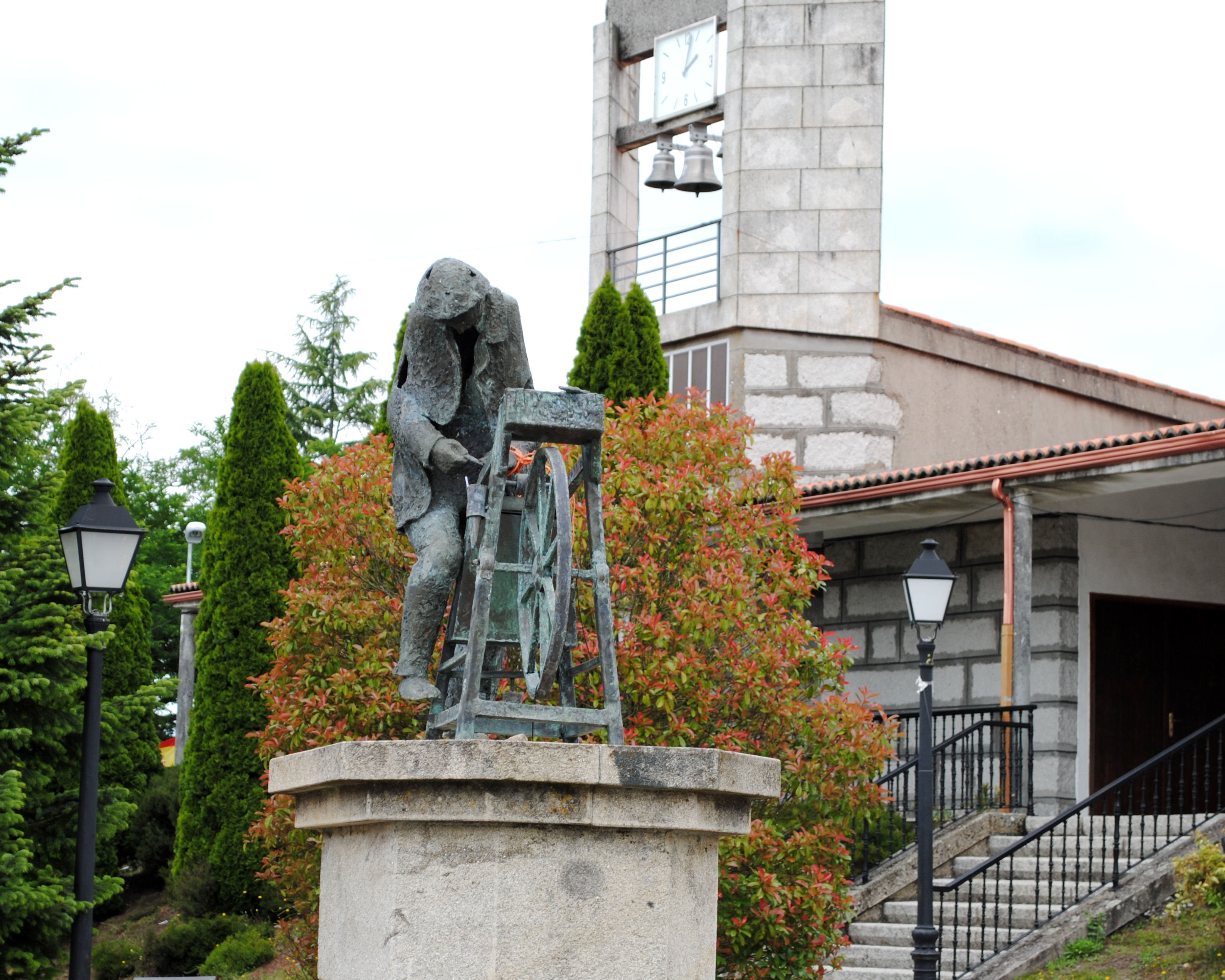 See title.